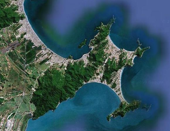 Landsat satellite photo (circa 2000) of Bombinhas, Brazil